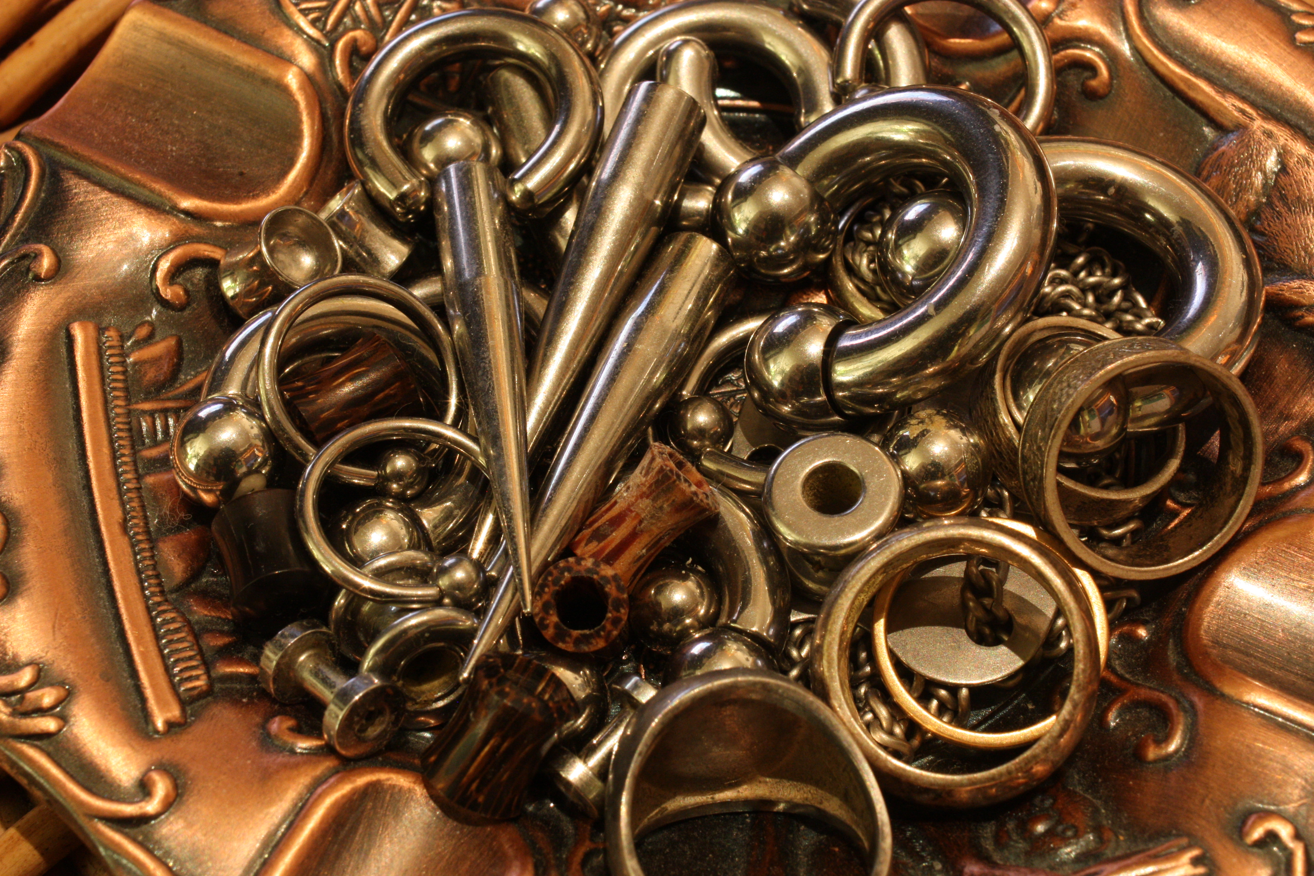 Collection of body piercing jewellery